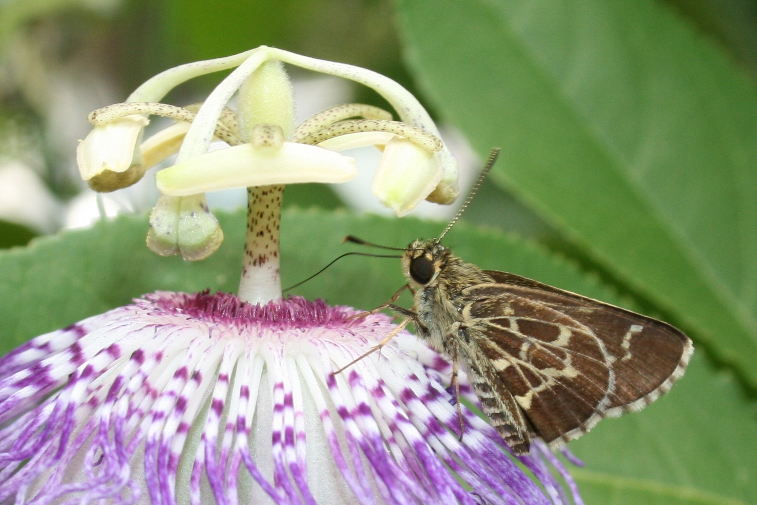 A Lace-winged Roadside-Skipper (Amblyscirtes aesculapius) visiting a Passionflower (Passiflora incarnata) in my garden in Rock Hill, SC.